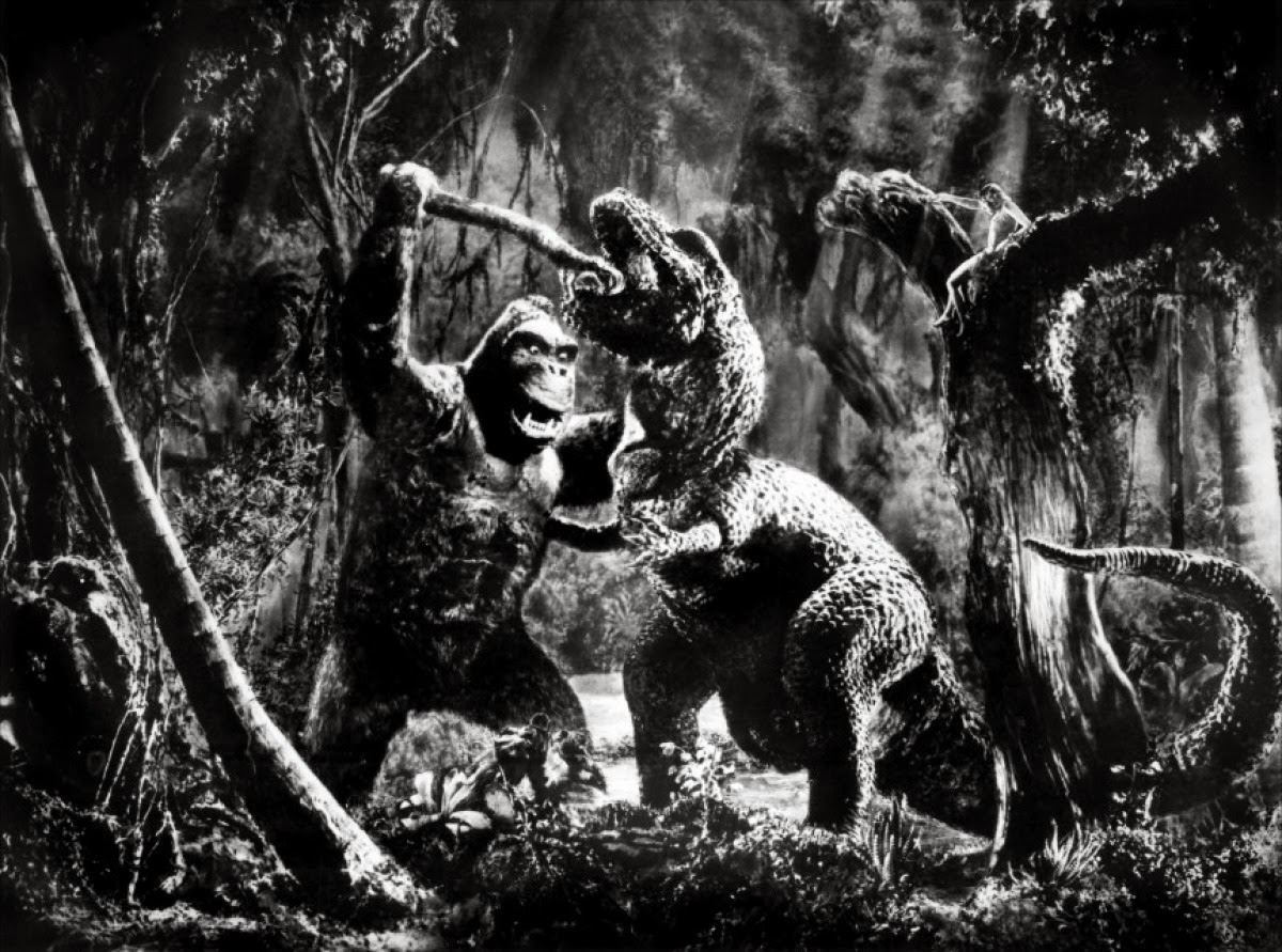 Publicity photo of American actress Fay Wray (top right) promoting the 1933 feature film King Kong.